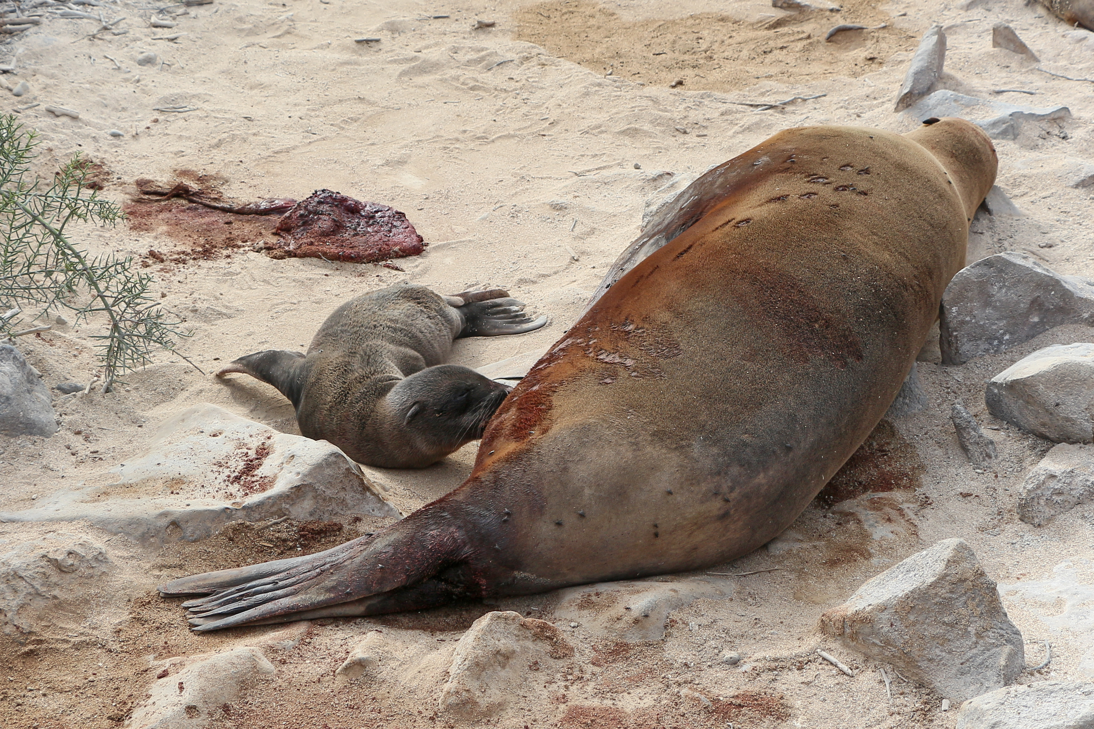 Galápagos sea lion female (Zalophus wollebaeki) suckling a newborn, Santa Fe Island, Galápagos National Park, Ecuador